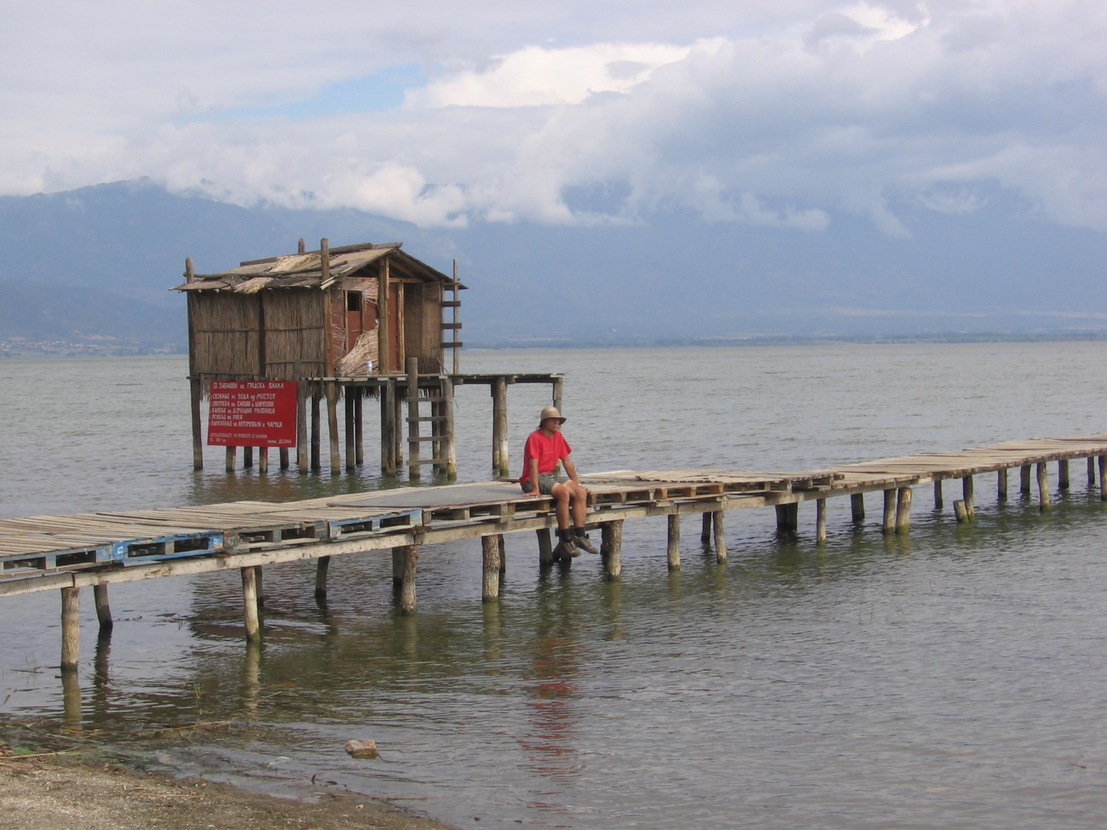 Lake Doiran, Republic of Macedonia/Greece, Macedonian shore.